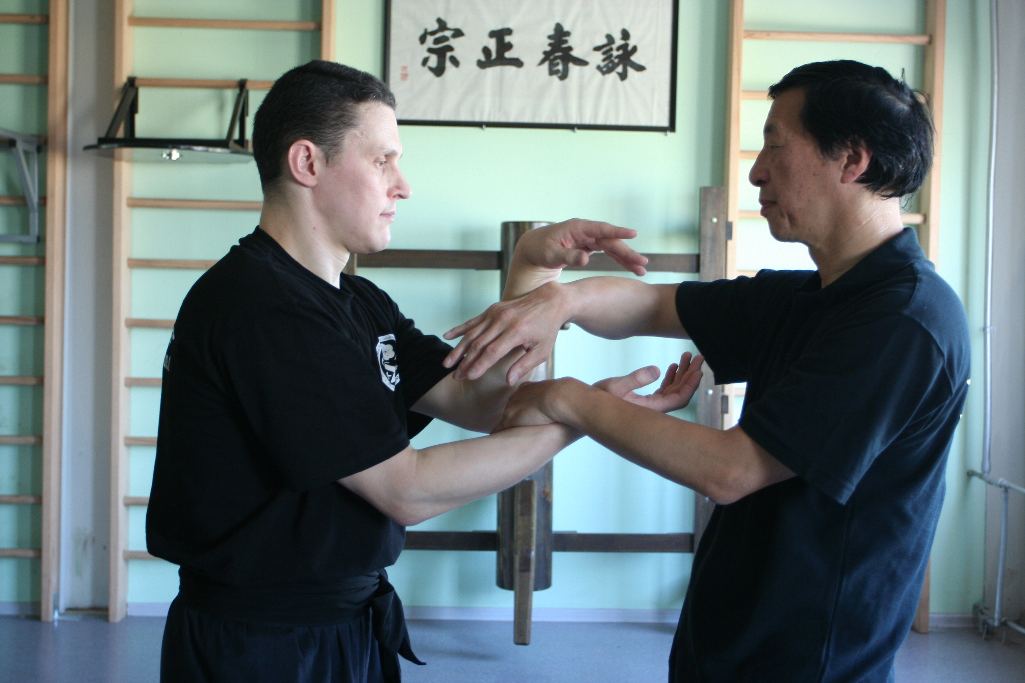 Samuel Kwok (rights) working Chi Sao. Seminar in Hong Kong in 2008